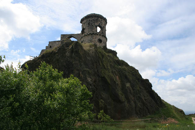 Mow Cop Castle From the north east. This "castle" commands an ideal defensible spot with far ranging views all around. Only one problem: it was built as a summerhouse in 1754!